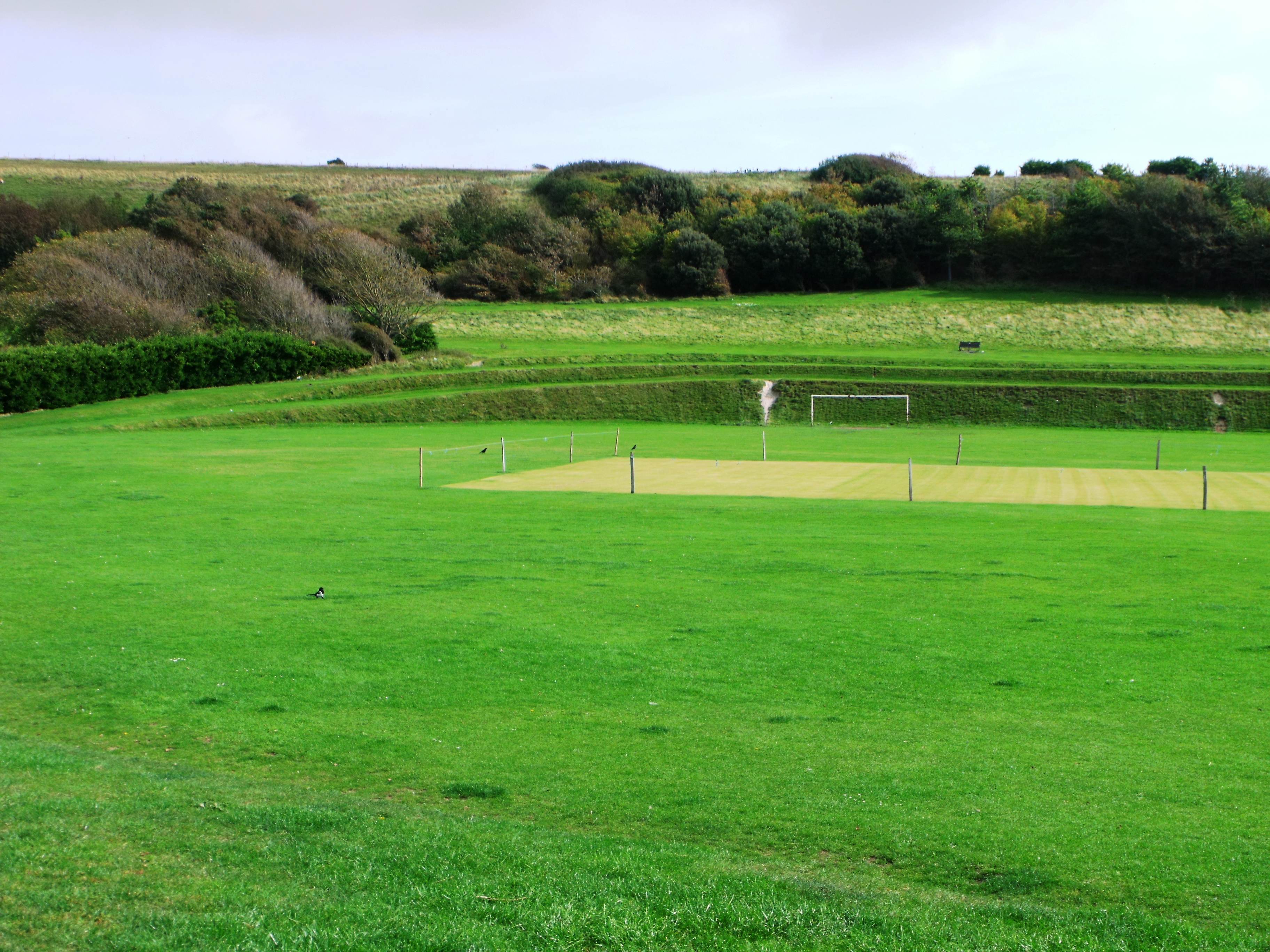 Though football matches are still played here, the site was being used by Sussex Air Ambulance as a landing pad for helicopters.